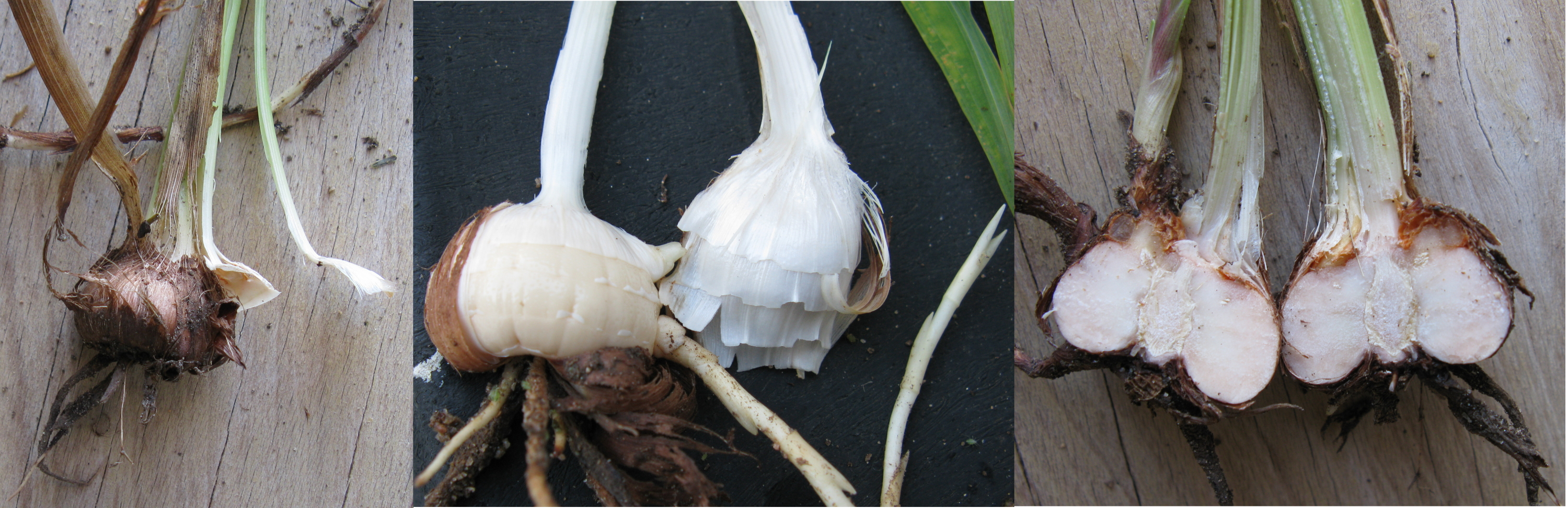 The leftmost image shows the entire corm in its tunic. The second shows the tunic partly peeled off to show the leaf bases comprising the tunic and the lines where the sessile leaves sprouted from the corm cortex, showing the nodes that demonstrate that the corm body is a stem with nodes and buds. The third has been vertically sectioned to show the central medulla and the base from which a new top has sprouted.